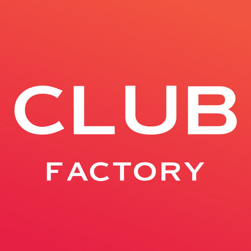 This is a logo owned by Jiayun Data Technology Co., Ltd